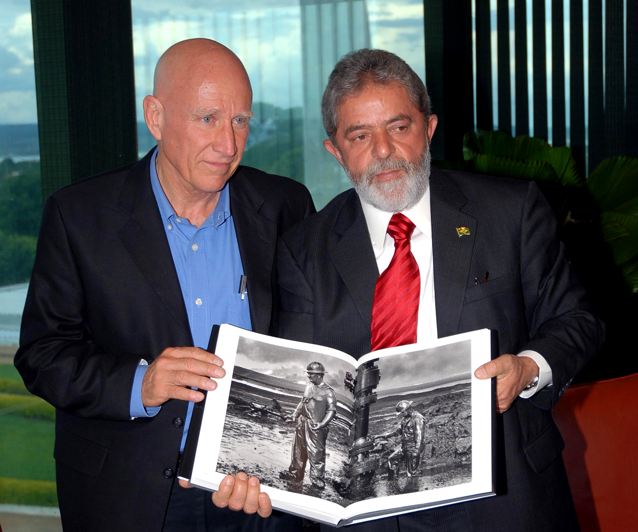 Luis Inácio Lula da Silva, president of Brazil, receives the book "Trabalhadores" as a gift from the photographer Sebastião Salgado.